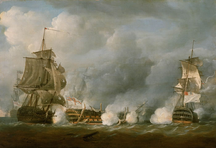 The 74-gun HMS Defence at the Glorious First of June, dismasted and damaged, taking raking fire from the French 74-gun Tourville, while exchanging fire with the 74-gun Mucius Scævola stationed before her to her right side. Mucius Scævola please refer to the Wikipedia article for HMS Defence (1763 particulary *Debritt, John (1801) A collection of state papers relative to the war against France now carrying on by Great Britain and the several other European powers .... (Printed for J. Debrett). *Gossett, William Patrick (1986) The lost ships of the Royal Navy, 1793–1900, Mansell ISBN: 0-7201-1816-6.